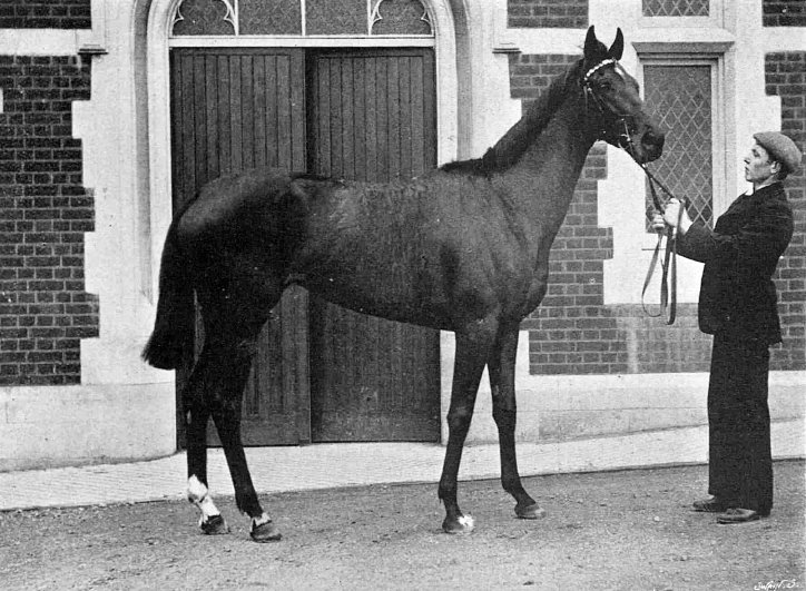 Nun Nicer, winner of the 1898 1000 Guineas.